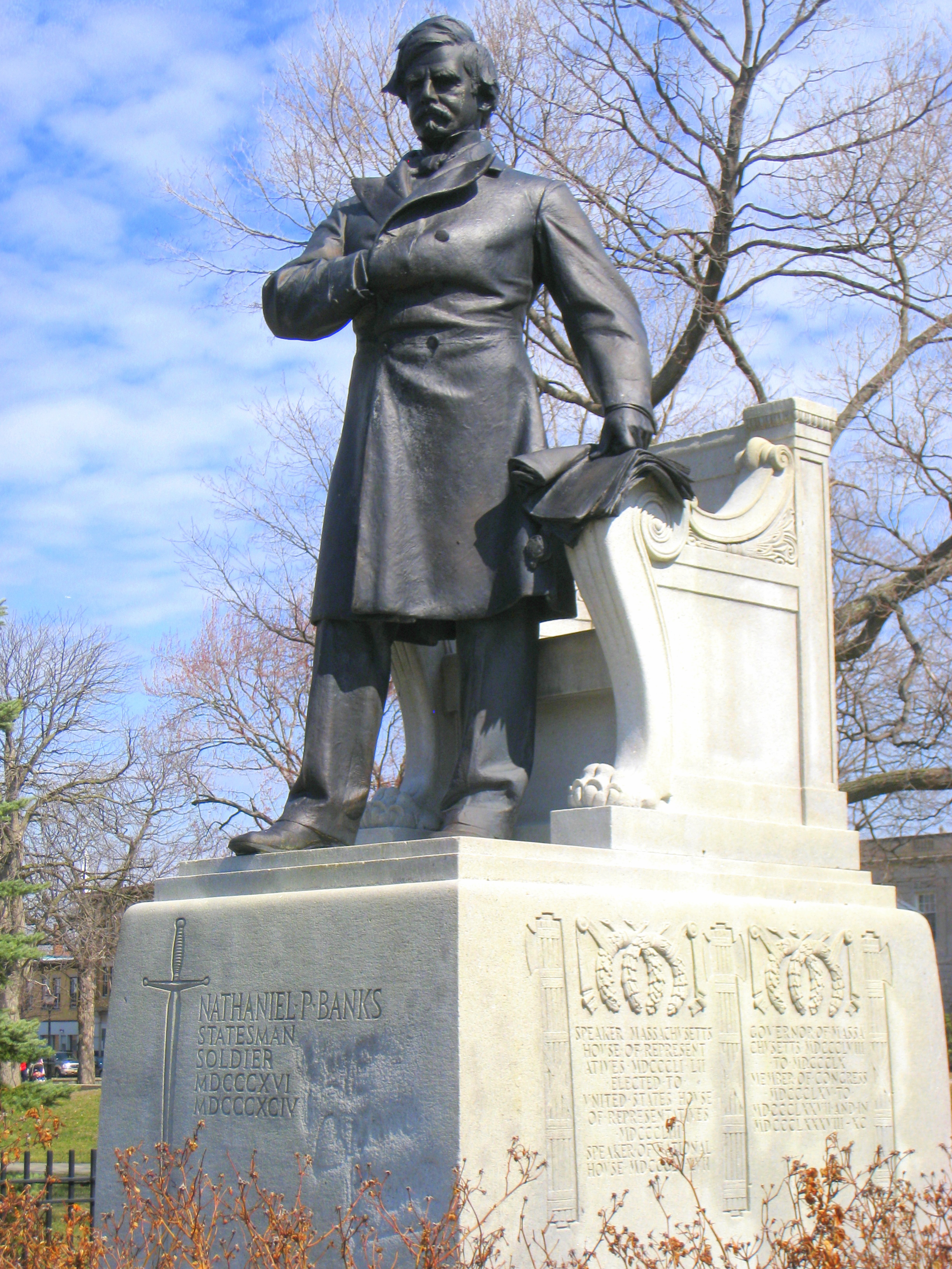 Statue of Nathaniel Prentice Banks in Waltham, Massachusetts, USA. Sculpted by H. H. Kitson; dedicated 1908.